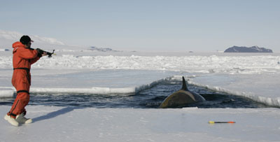 A researcher fires a biopsy dart at an Antarctic orca.